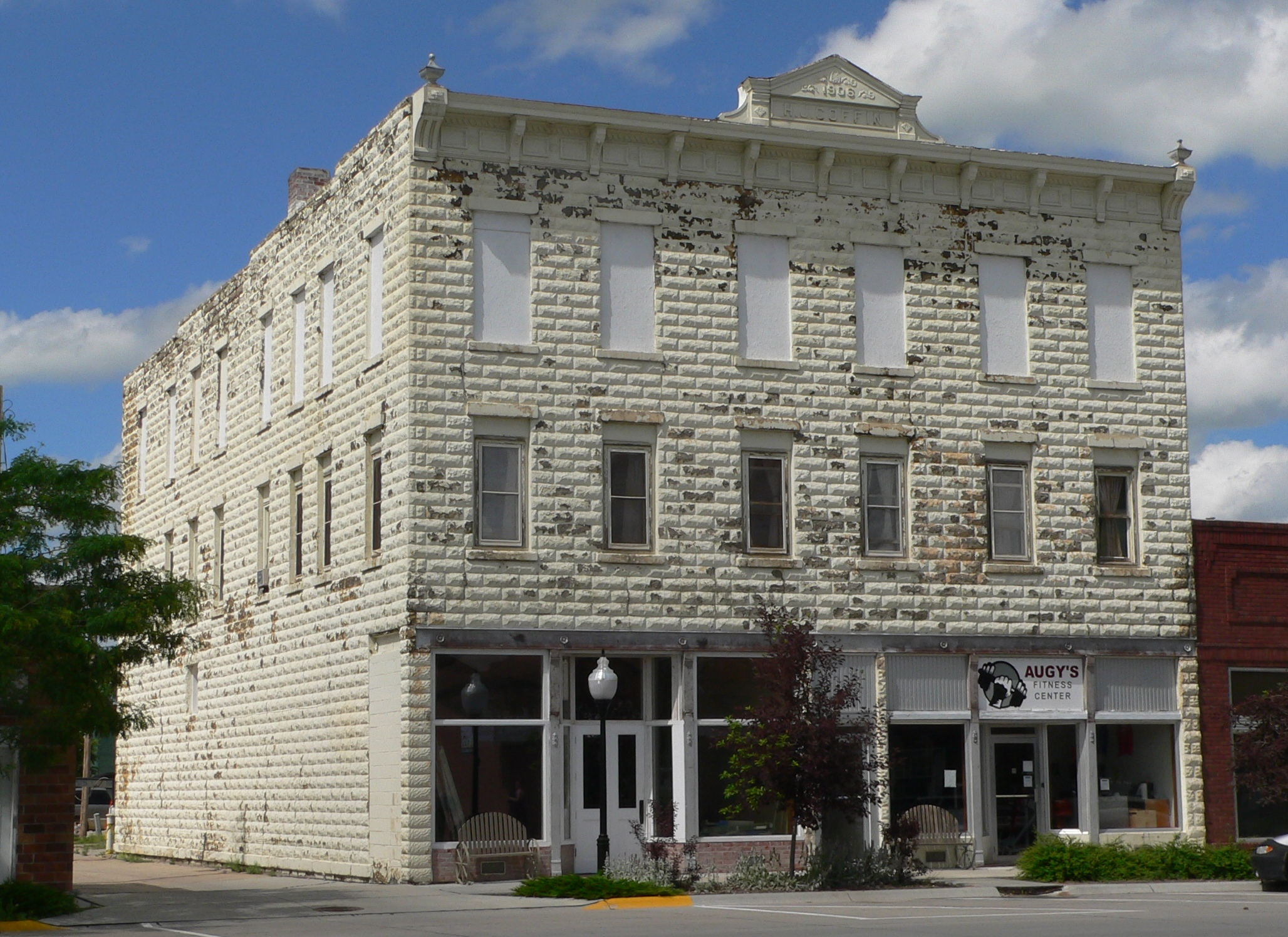 Hub Building in downtown Burwell, Nebraska; seen from the southwest. The Italianate building was constructed in 1906. It is listed in the National Register of Historic Places.